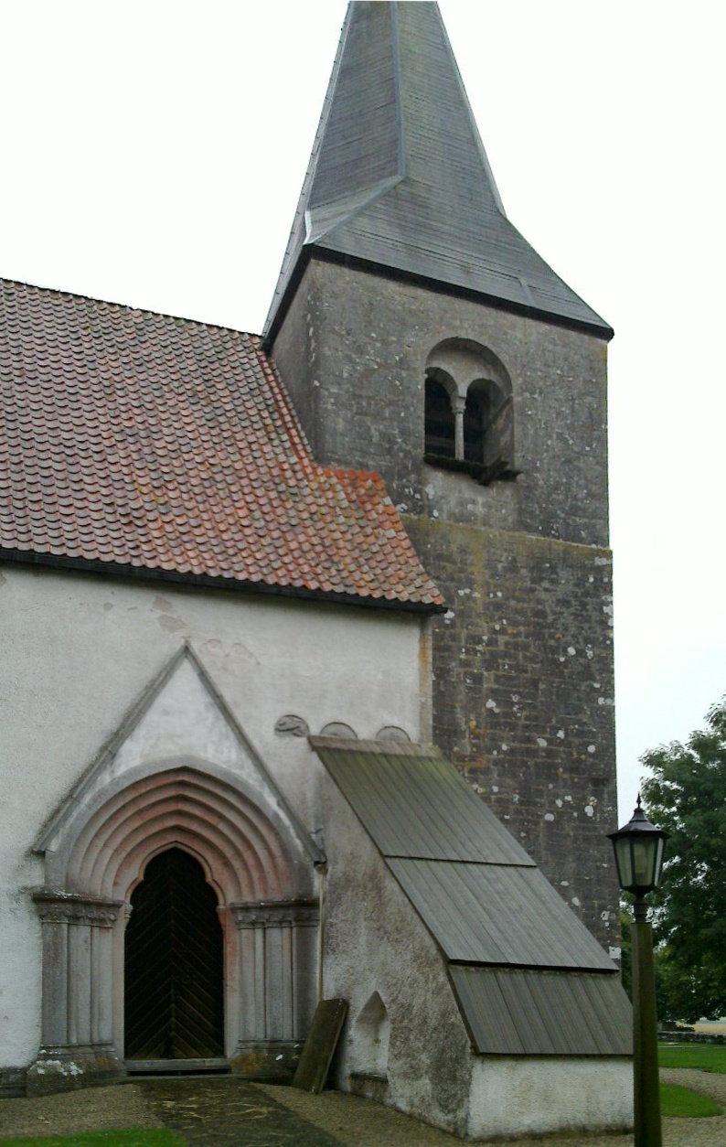 Church of Hejnum, Gotland, Sweden